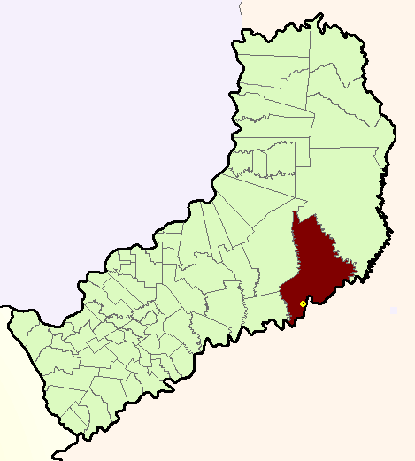 A map of El Soberbio's municipio in Misiones province, Argentina. The big point is El Soberbio town.